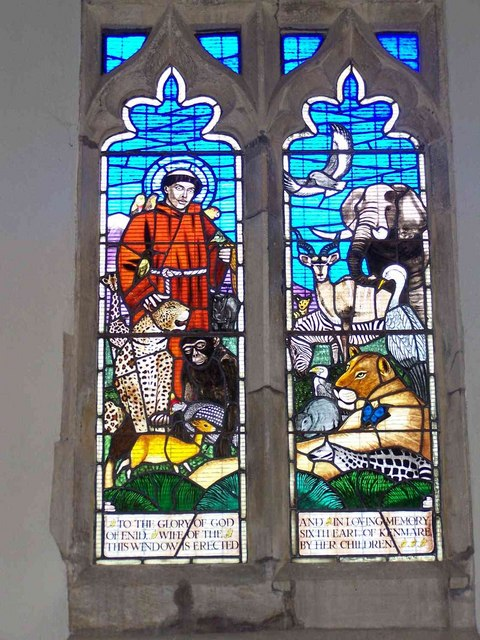 Wild Animal Window, St Leonard's Church, Drayton St. Leonard, Oxfordshire